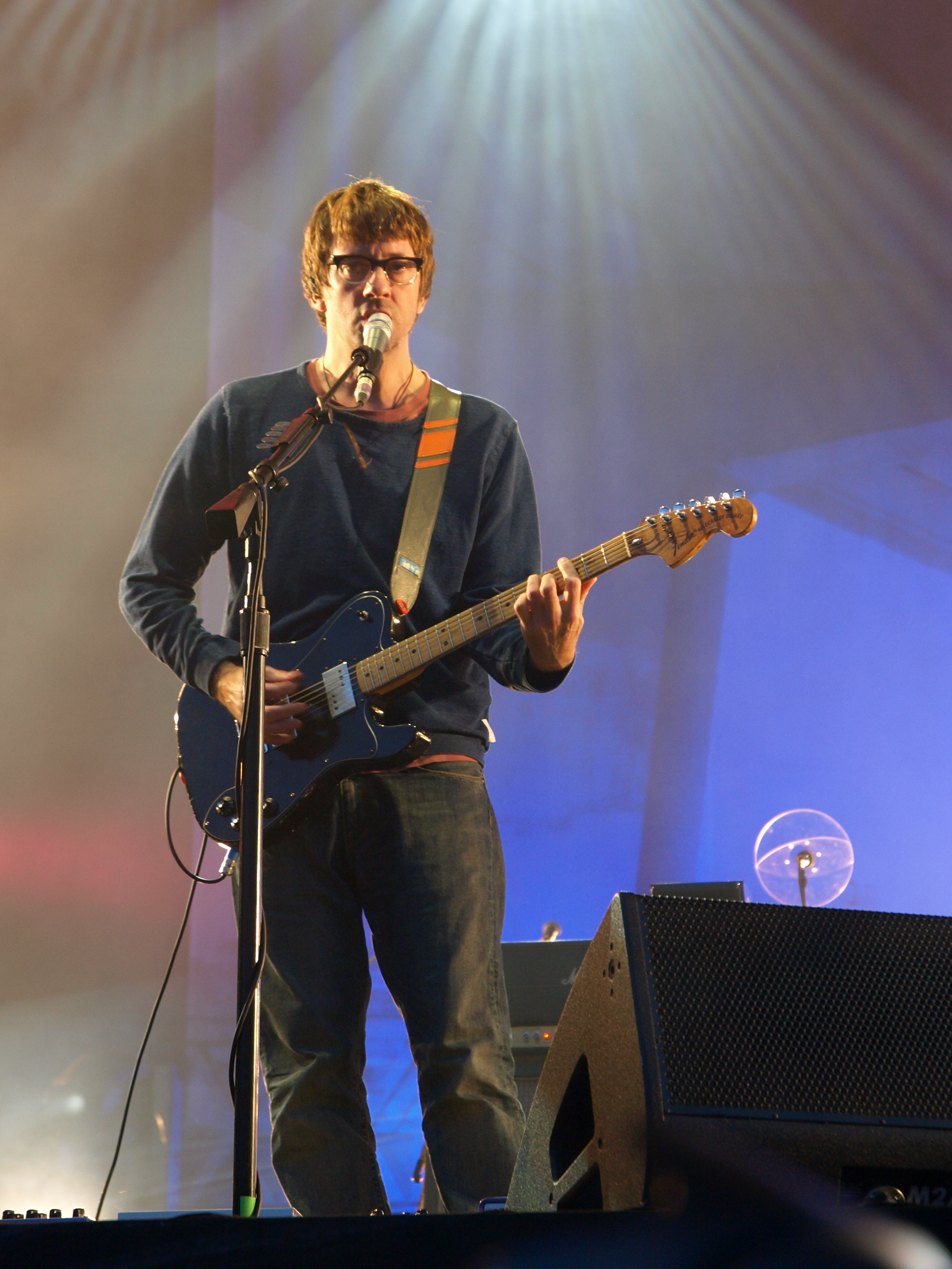 British band Blur live at Provinssirock 2013